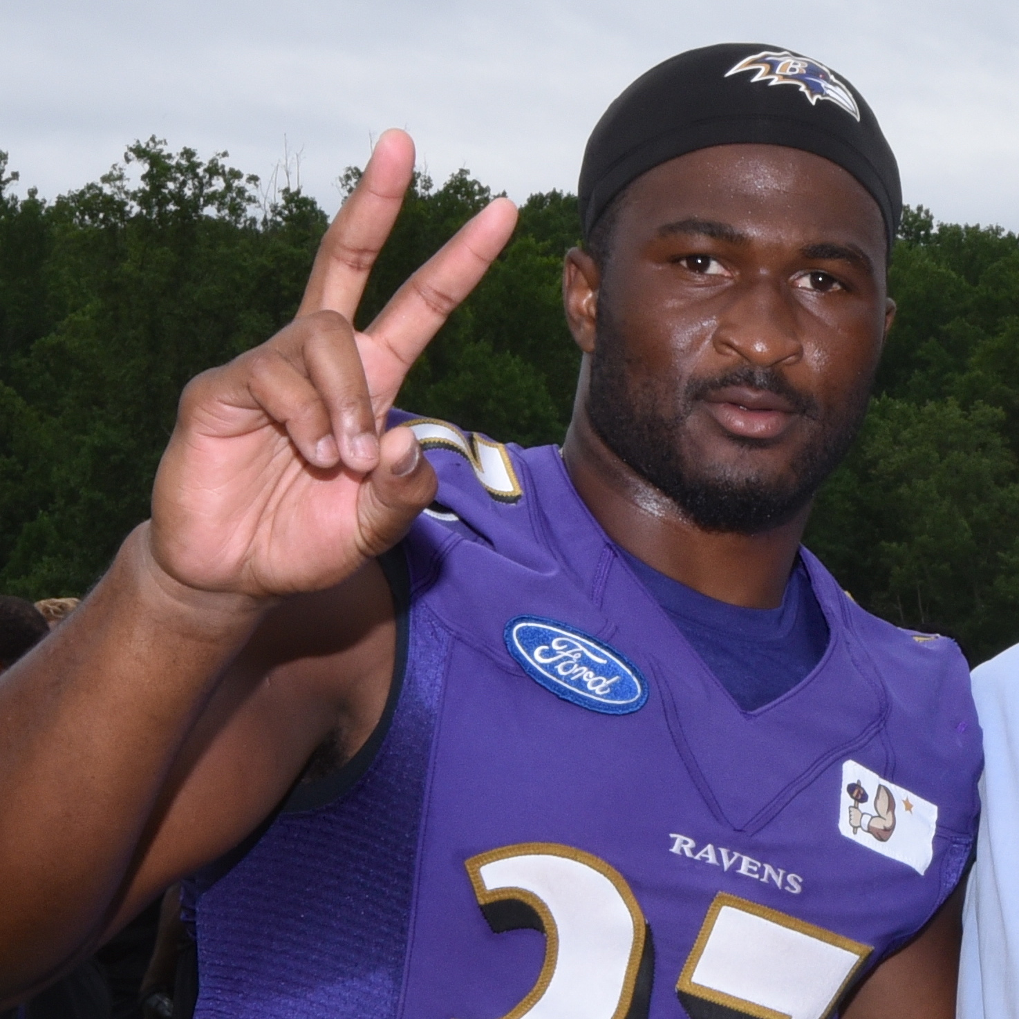 Baltimore Ravens running back, Javorius Allen, at training camp on August 9, 2016.